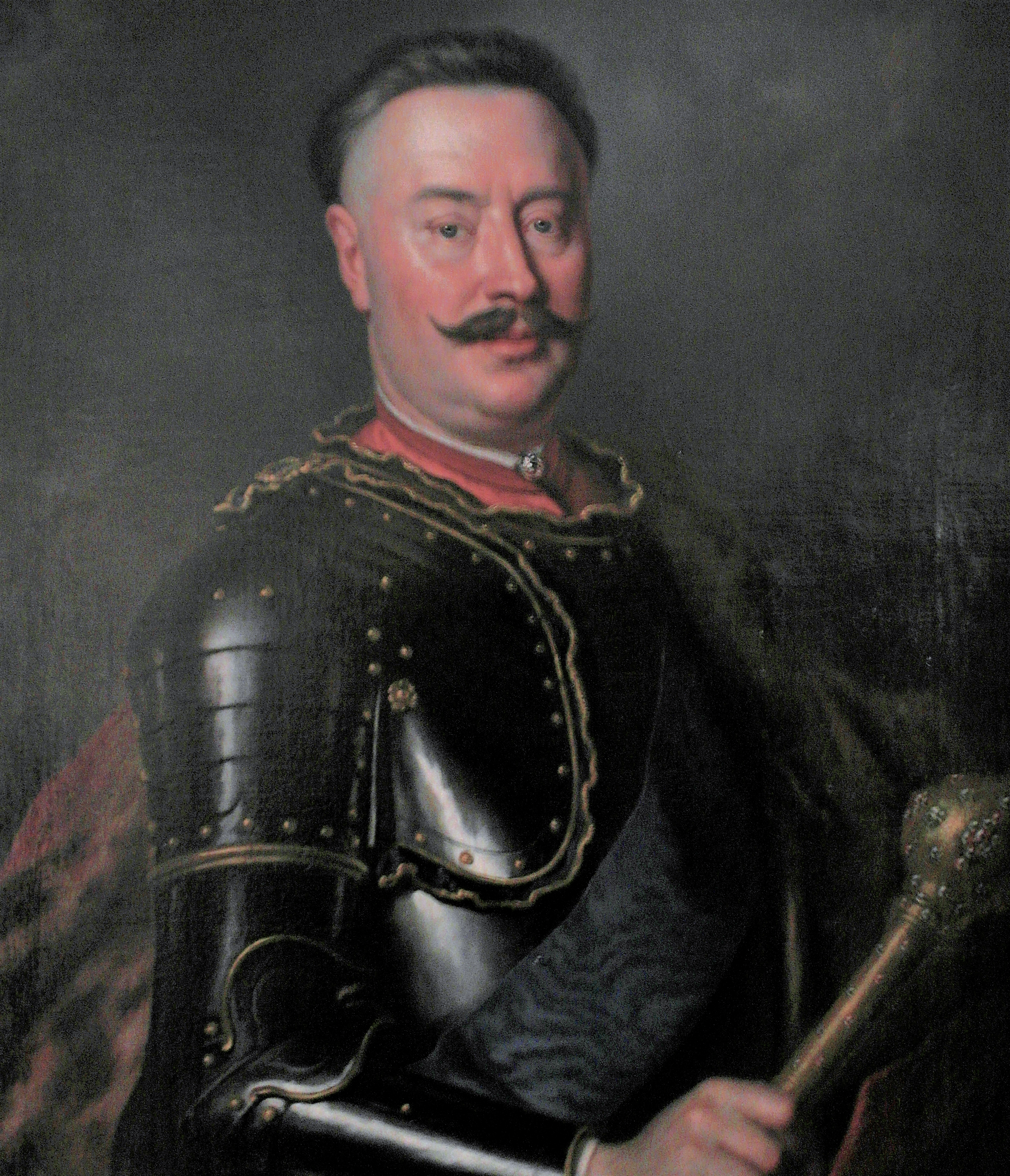 Jan Klemens Branicki by Augustyn Mirys